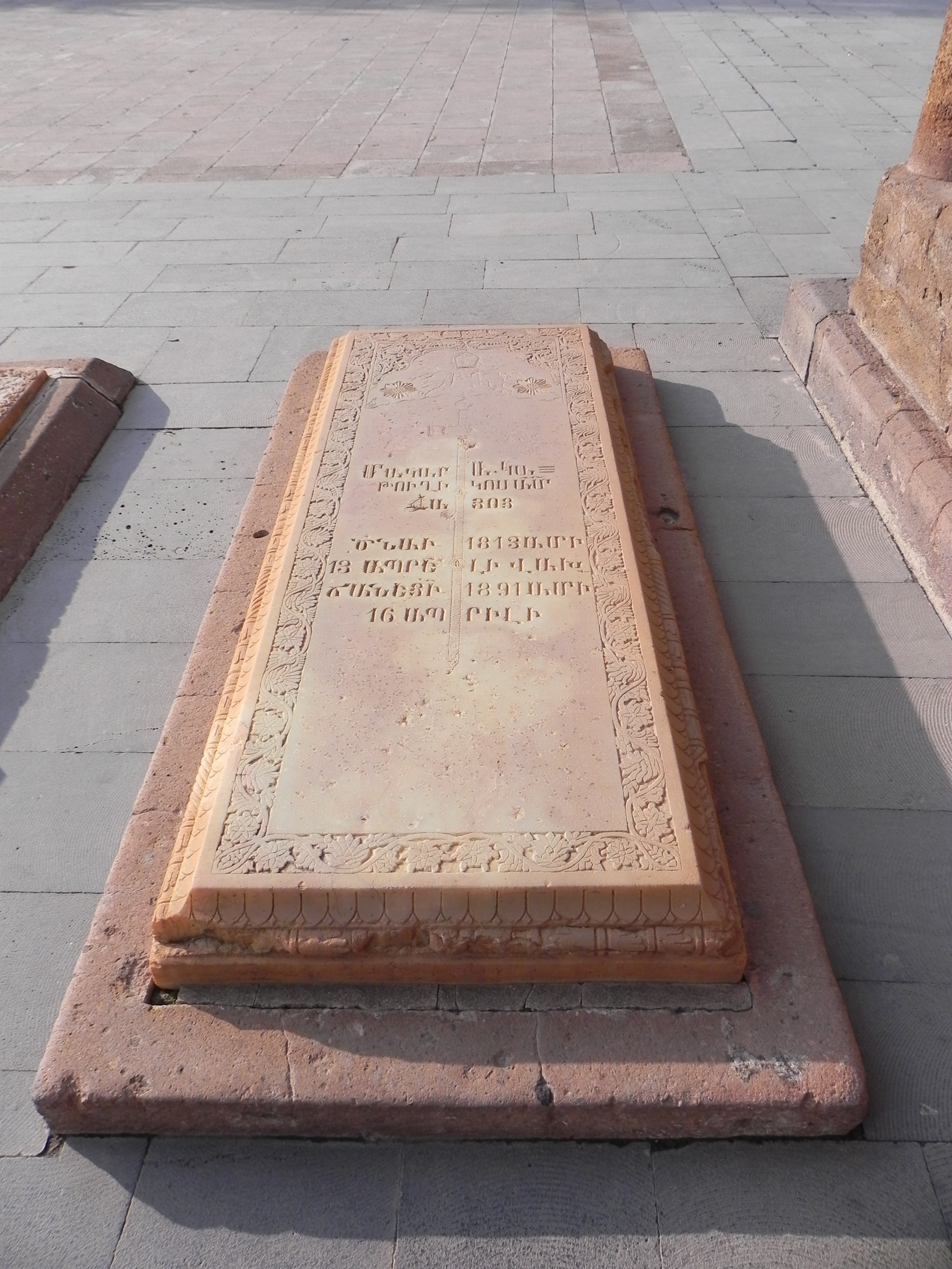 Tombstone of Makar I, Catholicos of All Armenians at Mother Cathedral on the grounds of the Mother See of Holy Etchmiadzin